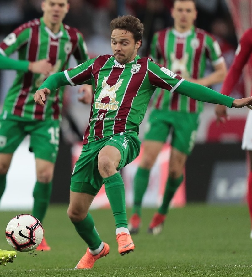 Yevgeni Bashkirov with FC Rubin Kazan in a game against FC Spartak Moscow.